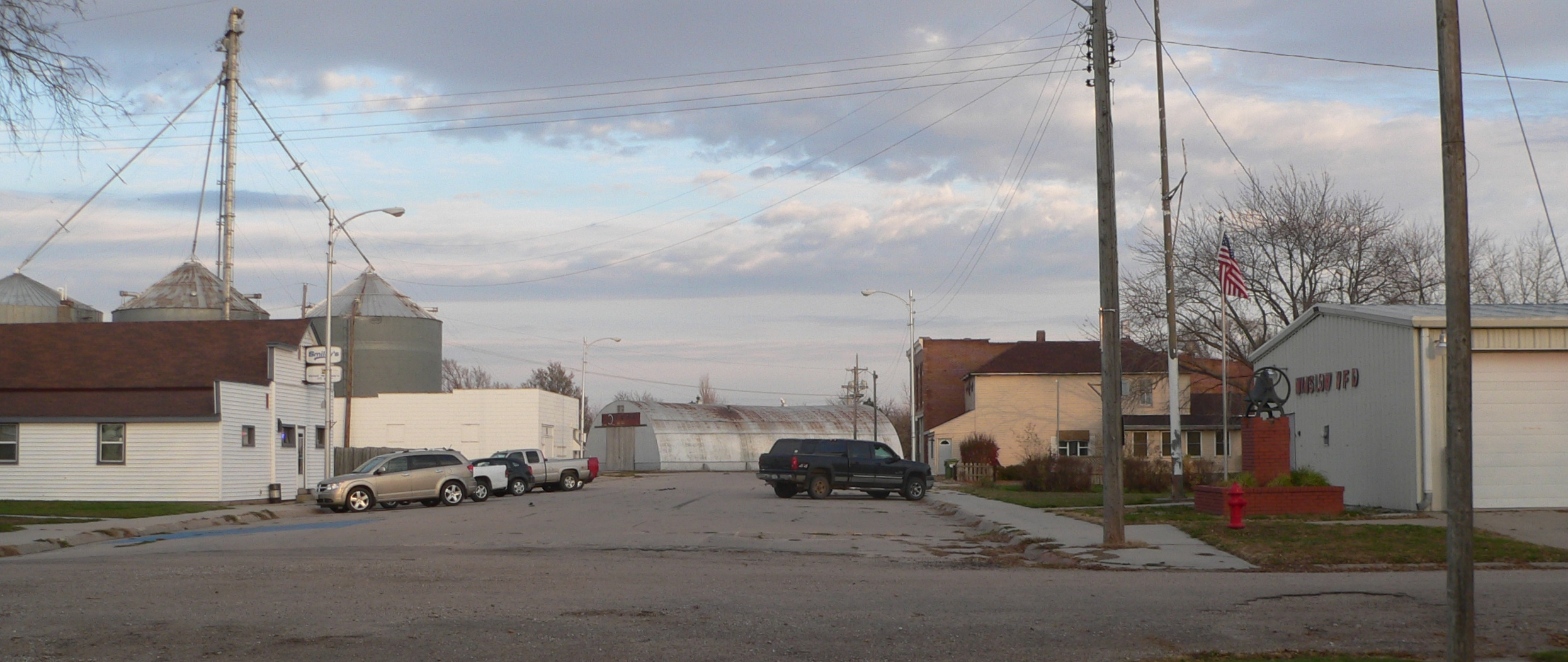 Downtown Winslow, Nebraska: Main Street.